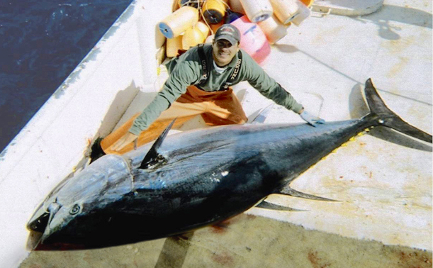 Large Atlantic bluefin tuna, Thunnus thynnus, on deck